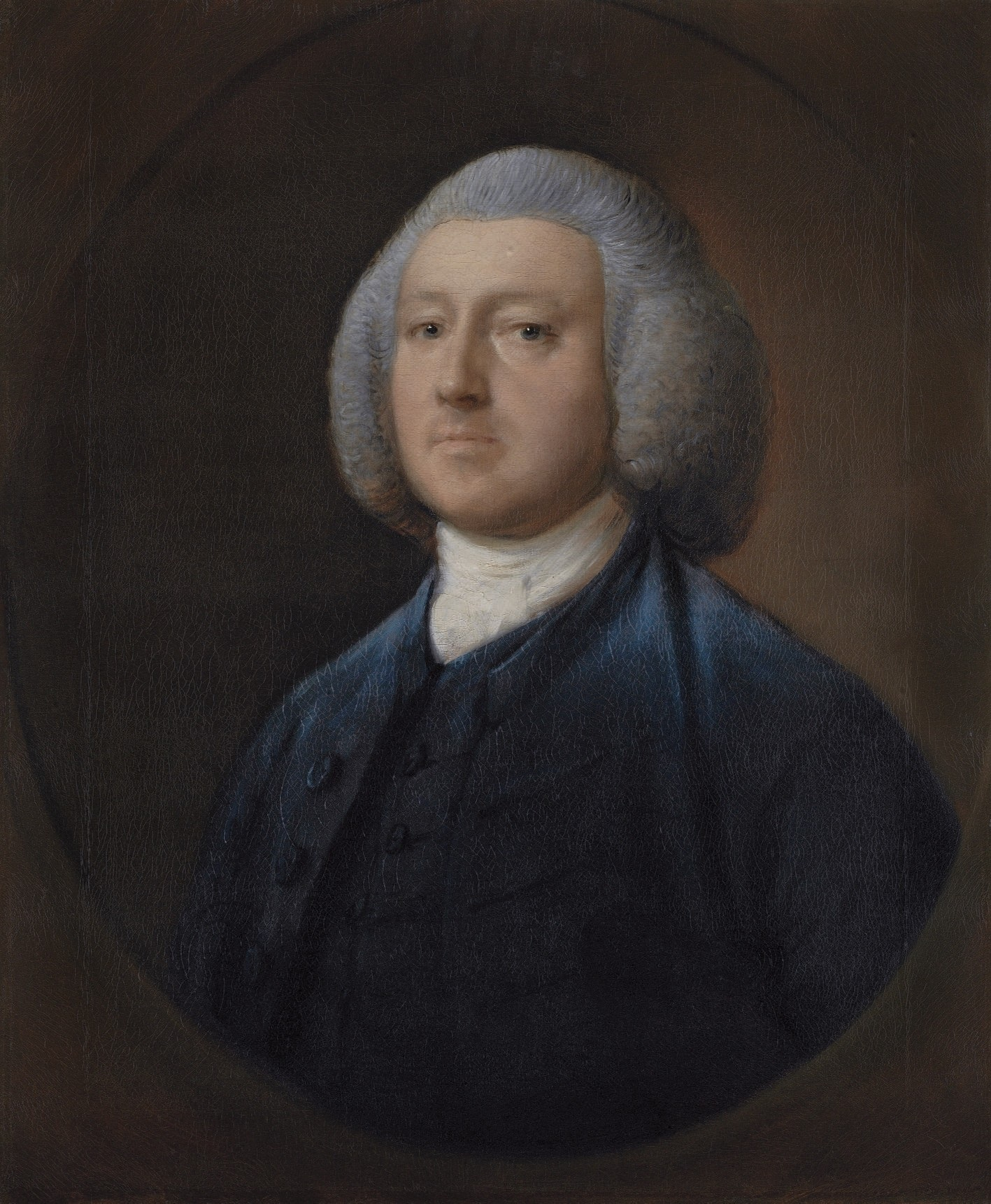 half-length, in a blue coat, in a feigned oval